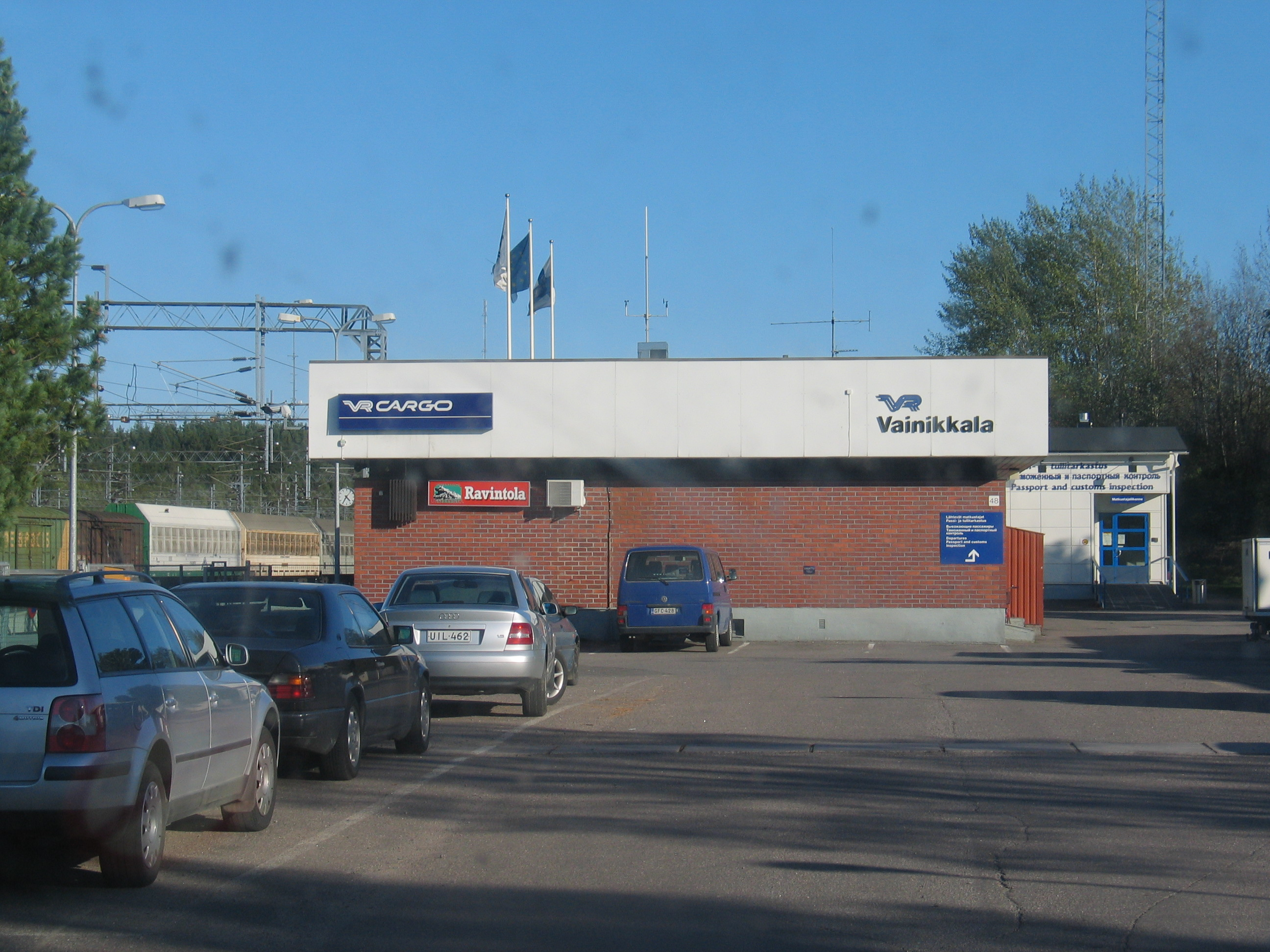 Vainikkala railway station in Lappeenranta, Finland